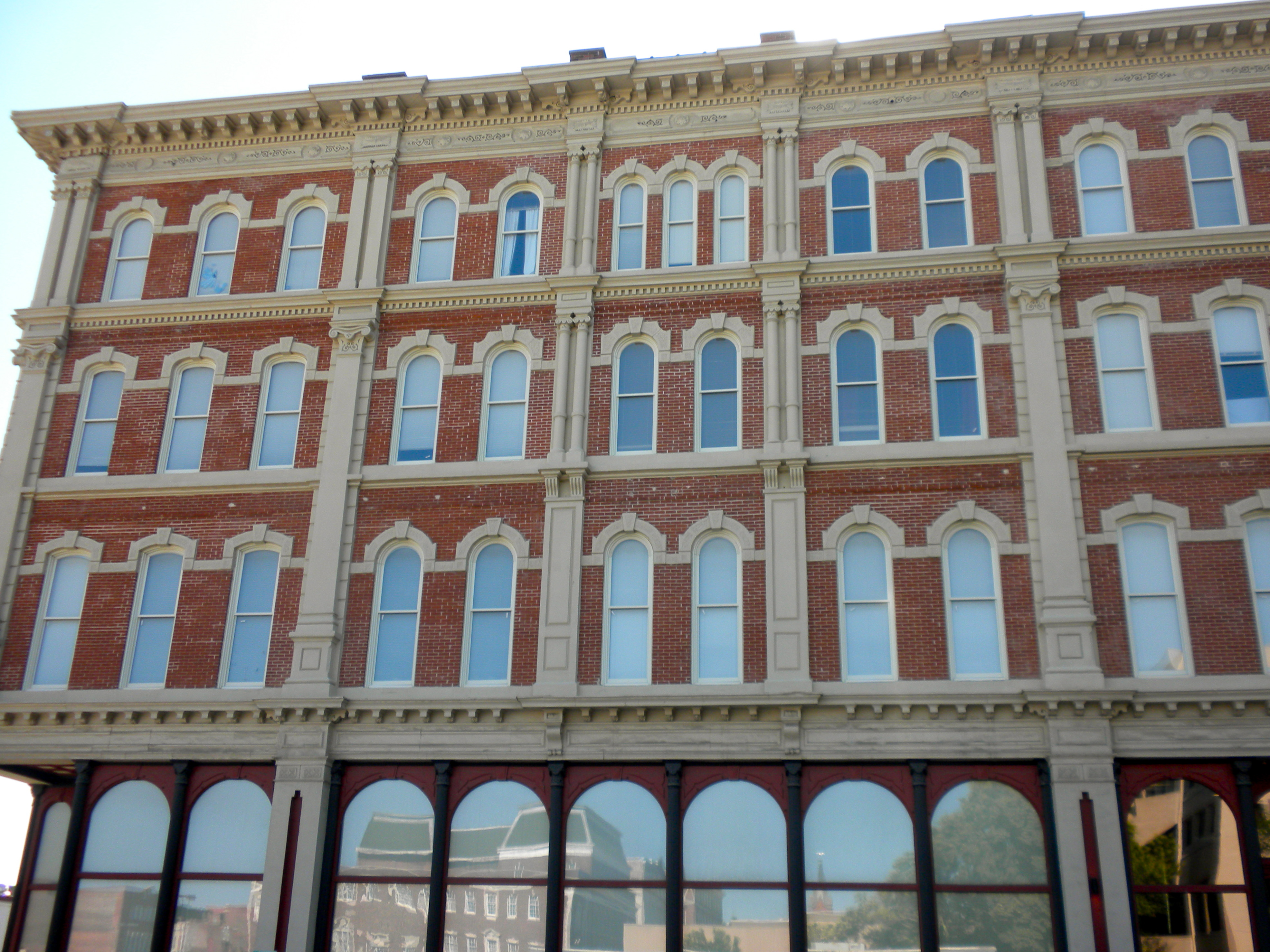 Building in Central-North Commercial Historic District. Historic District on the NRHP since March 8, 1991, and is roughly bounded by N. 4th, Main, Francis and Robidoux Sts., St. Joseph, Missouri